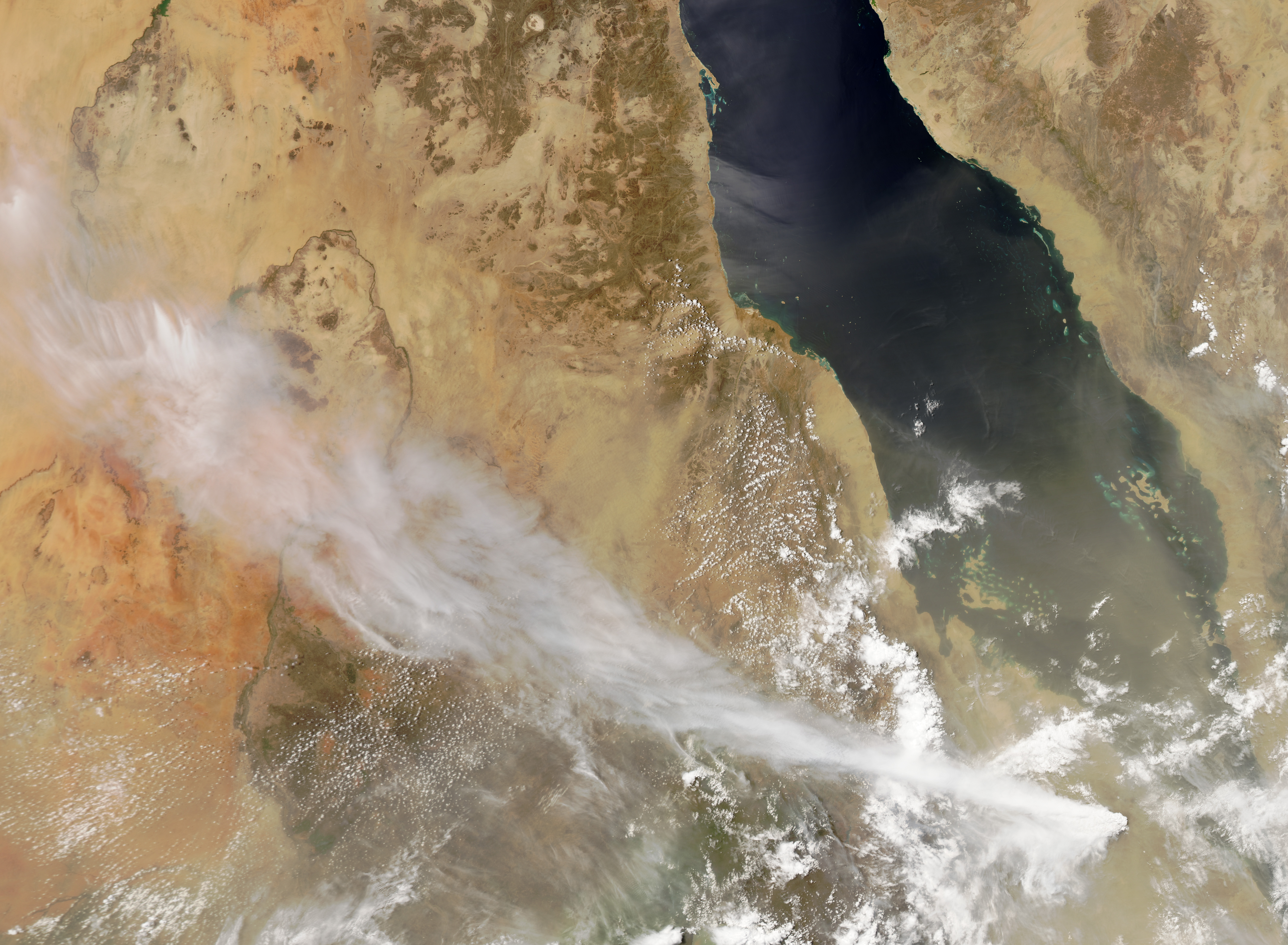 Nabro, a stratovolcano in the northeast African nation of Eritrea, rumbled to life late in the evening on June 12, 2011, following a series of earthquakes. The Moderate Resolution Imaging Spectroradiometer (MODIS) on the Aqua satellite captured this natural-color image the next day. Initial reports from news agencies and the Volcanic Ash Advisory Center in Toulouse, France, proclaimed the eruption to be occurring at Dubbi, a volcano further south. But later reports from volcanologists, field scientists, and the satellite image above appear to confirm the eruption at Nabro. There are no historical reports of eruptions at Nabro before today. The volcano is part of a larger complex with several nested calderas nearby. It is part of the East African Rift, where the African continent is slowly pulling apart due to tectonic plate movements.